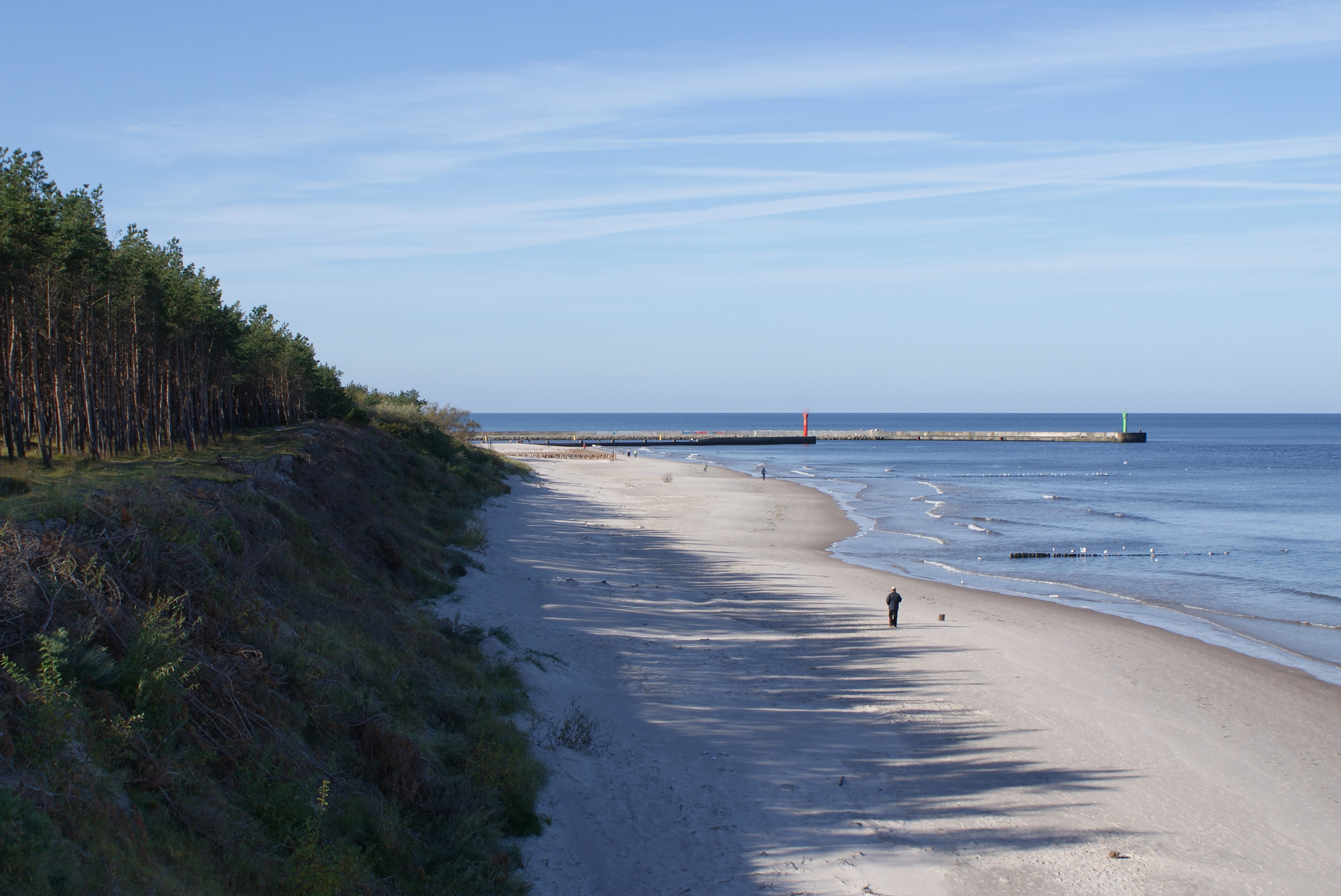 East beach in Mrzeżyno, view at the west